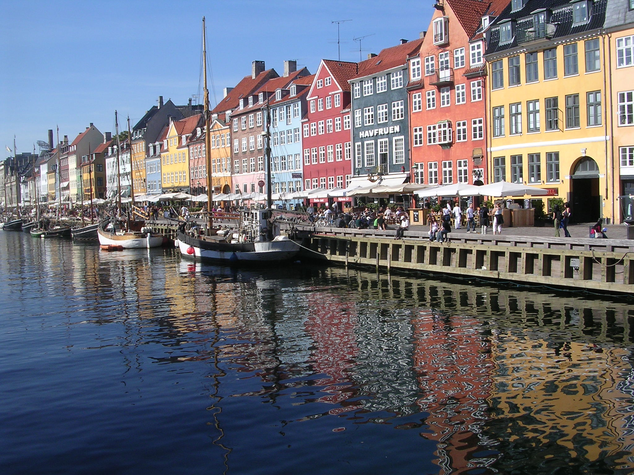 This is Nyhavn in Copenhagen